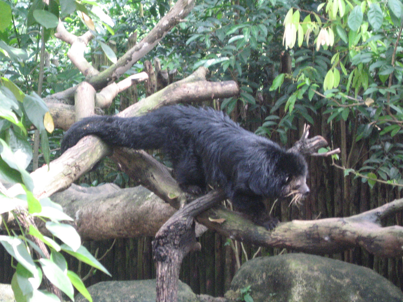 A Binturong (Arctictis binturong) at the Singapore Zoo.